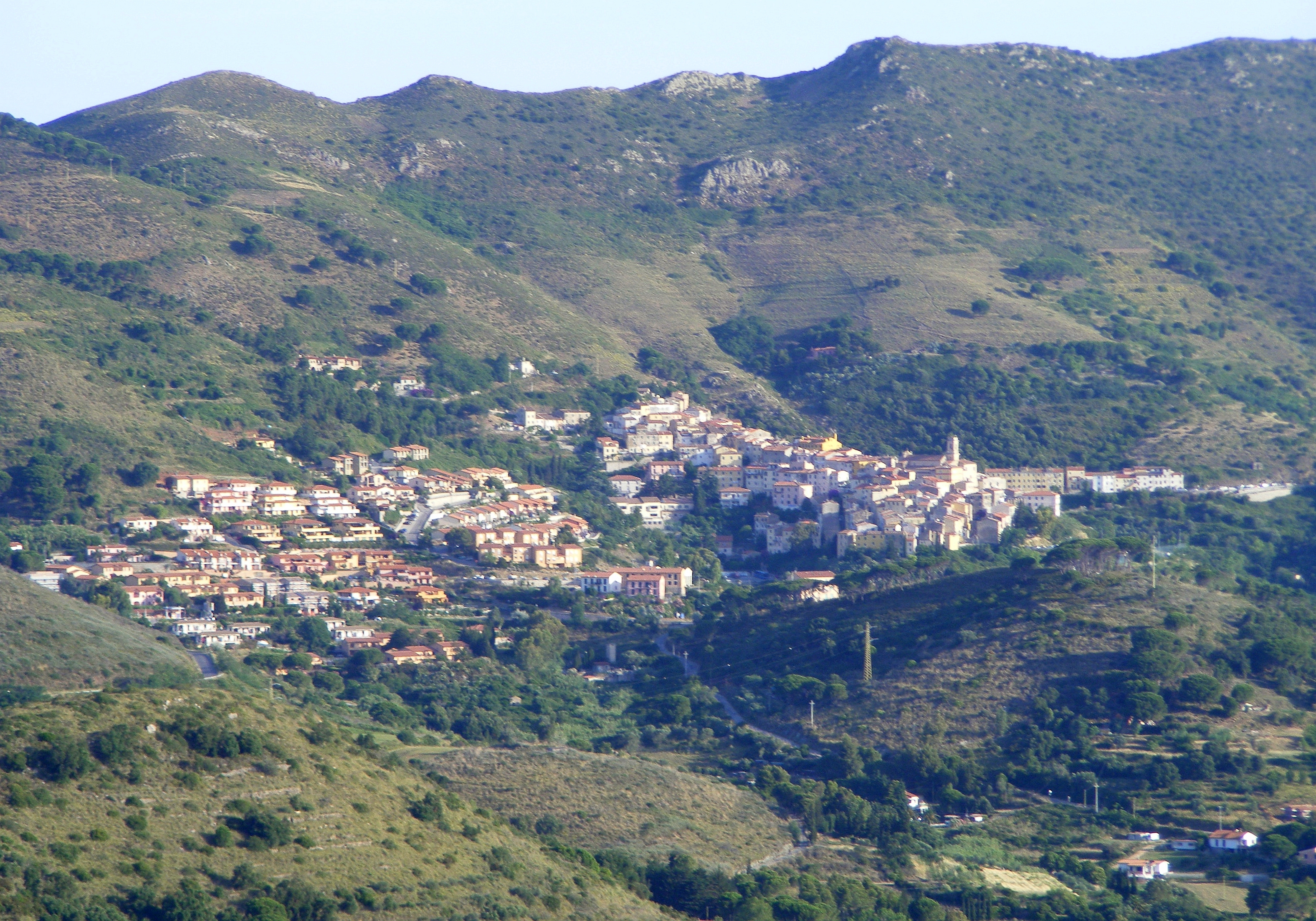 Rio nell'Elba (LI, Italy): panorama from Monte Arco